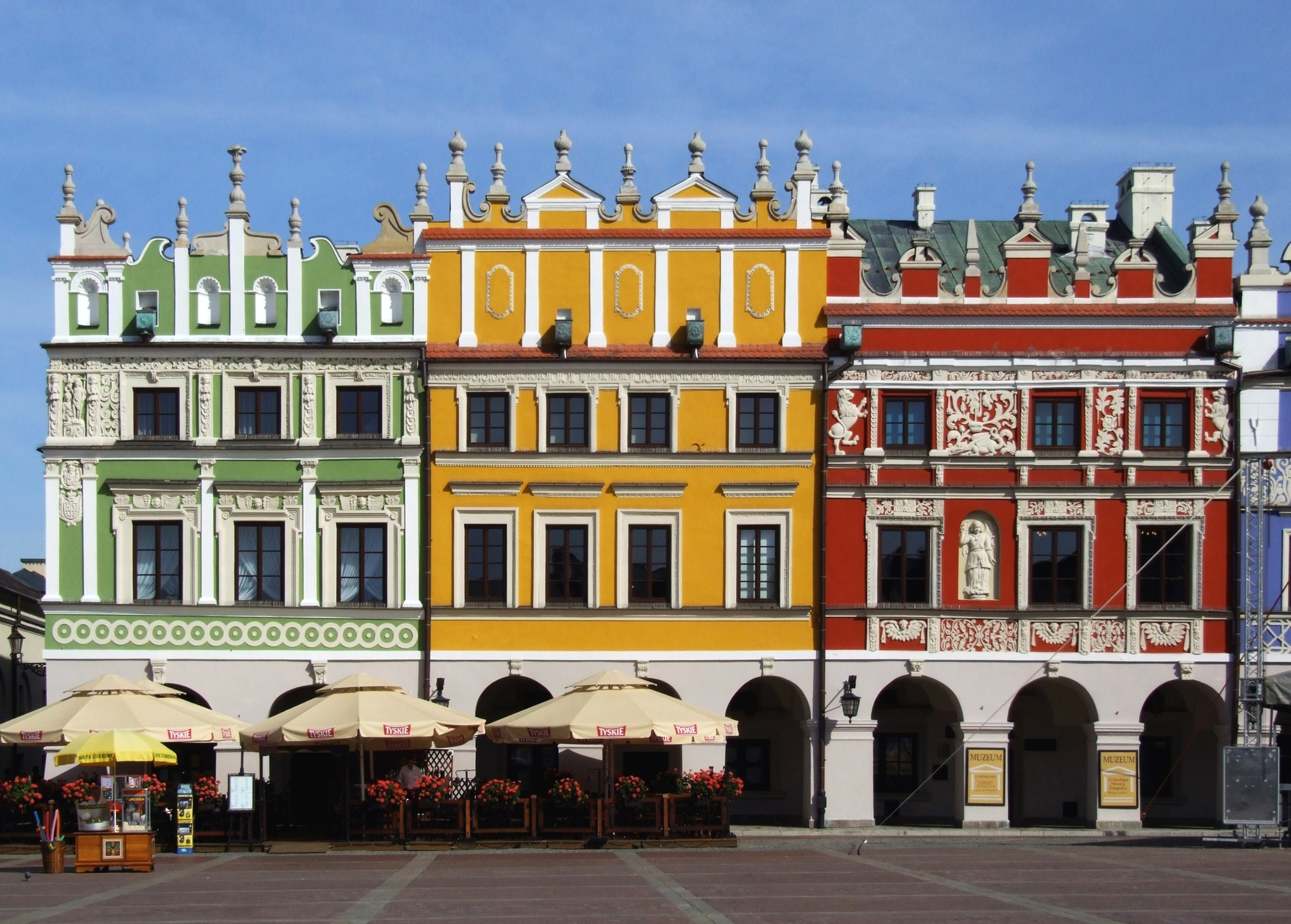 Renaissances houses (Armenian tenements) in Zamość